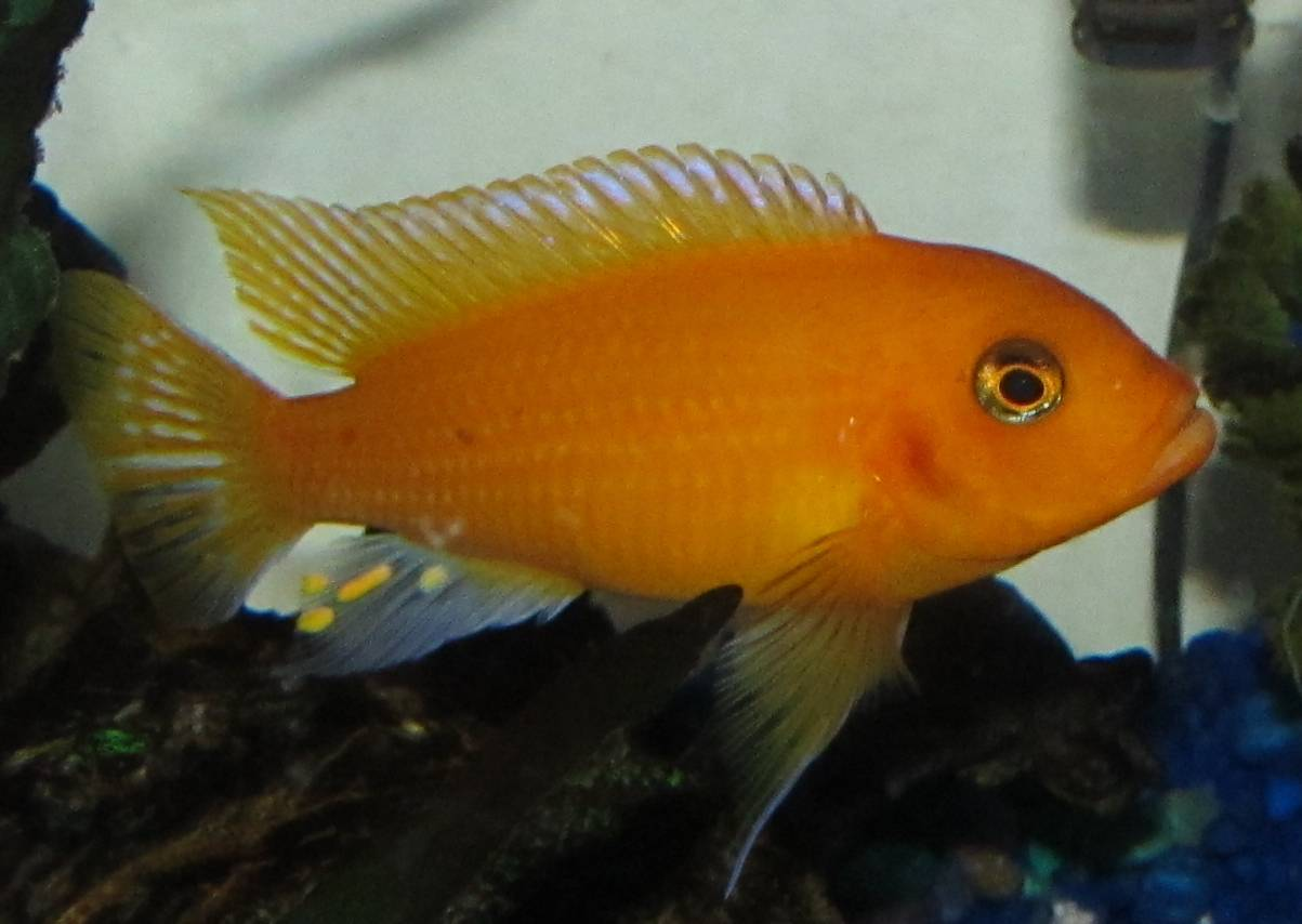 A male red zebra cichlid (aka Esther Grant's zebra), Maylandia estherae